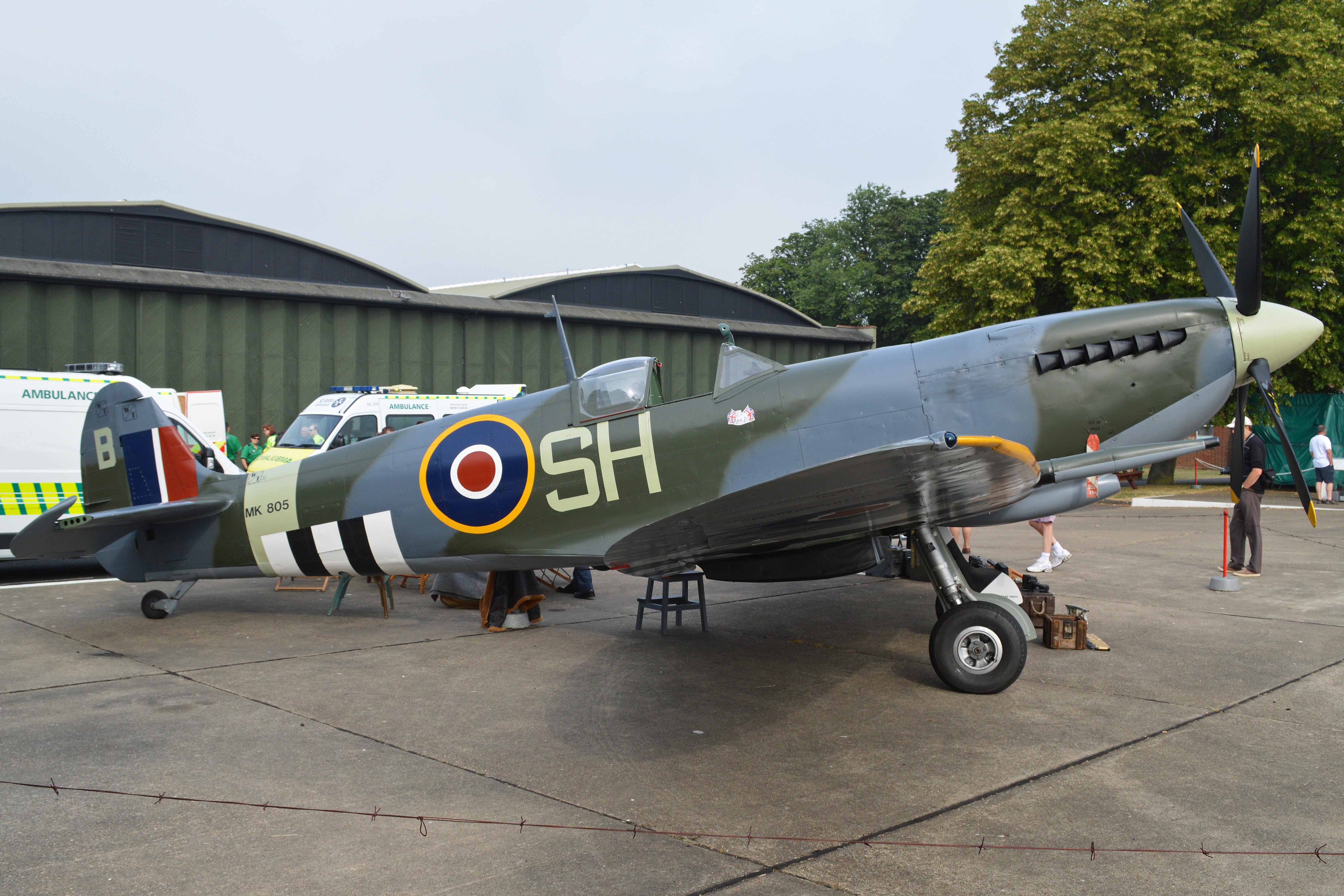 This is a very convincing full size Spitfire mock-up which really does look the part. It is painted to represent an aircraft of 64sqn RAF during 1944. The real 'MK805' still exists and is on display in the Italian Air Force museum at Vigna di Valle, Italy. The mock-up is owned by 'Simply Spitfire', is available for booking, and appears at events regularly throughout the UK. 2013 Flying Legends airshow. Duxford, 14-7-2013